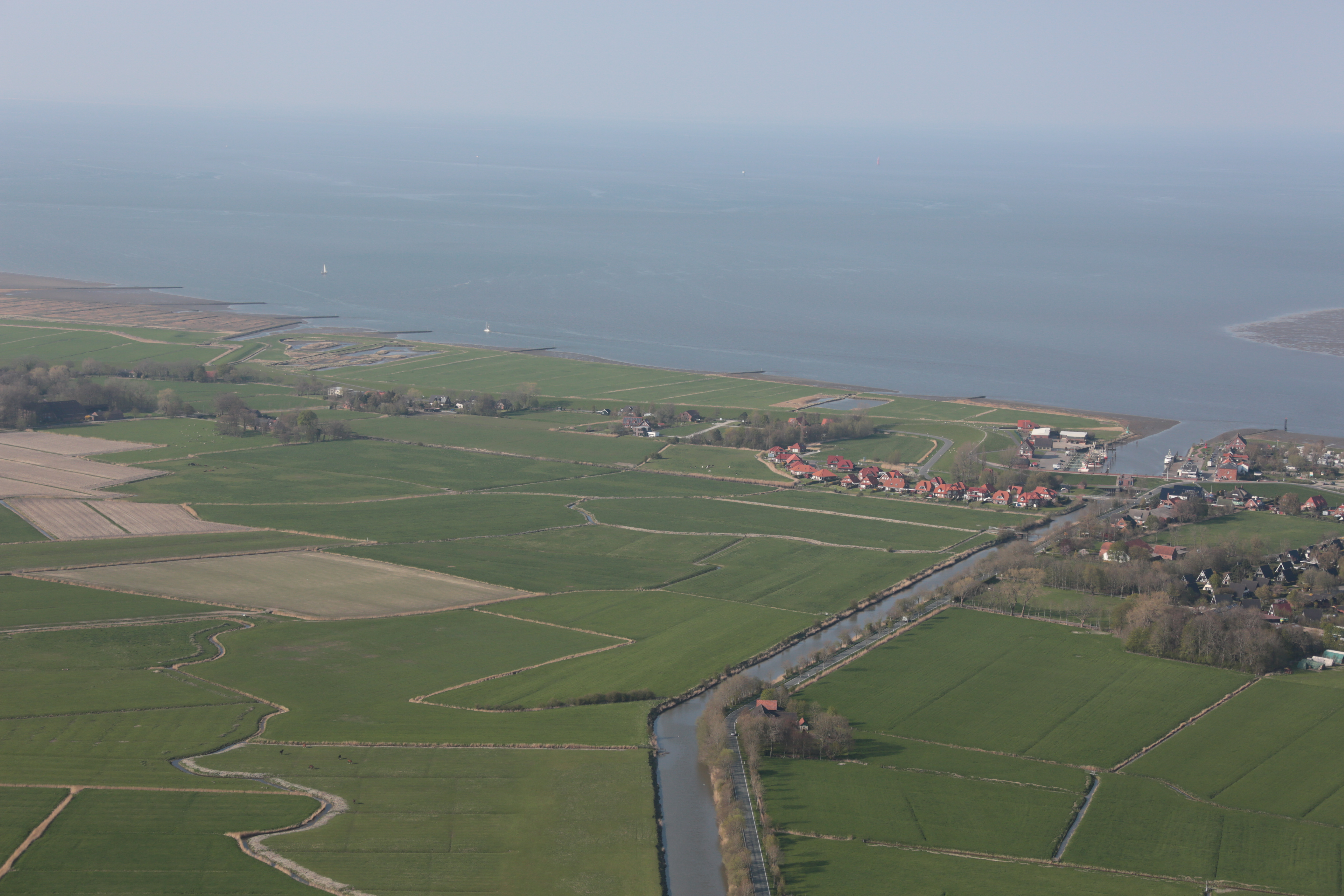 Fotoflug von Nordholz-Spieka nach Oldenburg und Papenburg This photo was taken by Alchemist-hp. If you use one of my photos, an email (account needed) or a message or direct to: my email account would be greatly appreciated. Please note the license terms. Other licensing terms can get discussed, too. This file is copyrighted and has been released under a license which is incompatible with Facebook's licensing terms. It is not permitted to upload this file to Facebook.